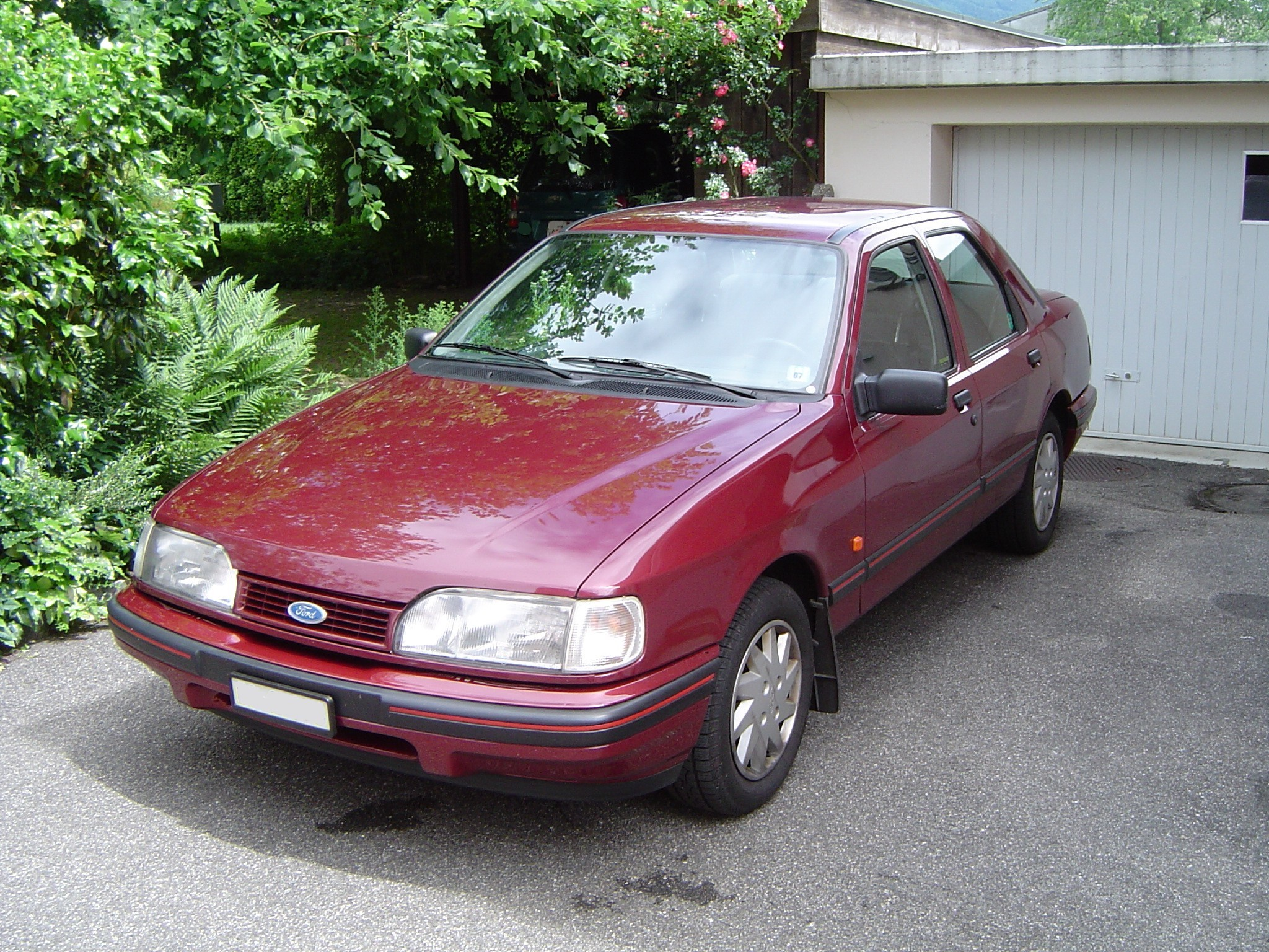 Ford Sierra CLX Swiss version front